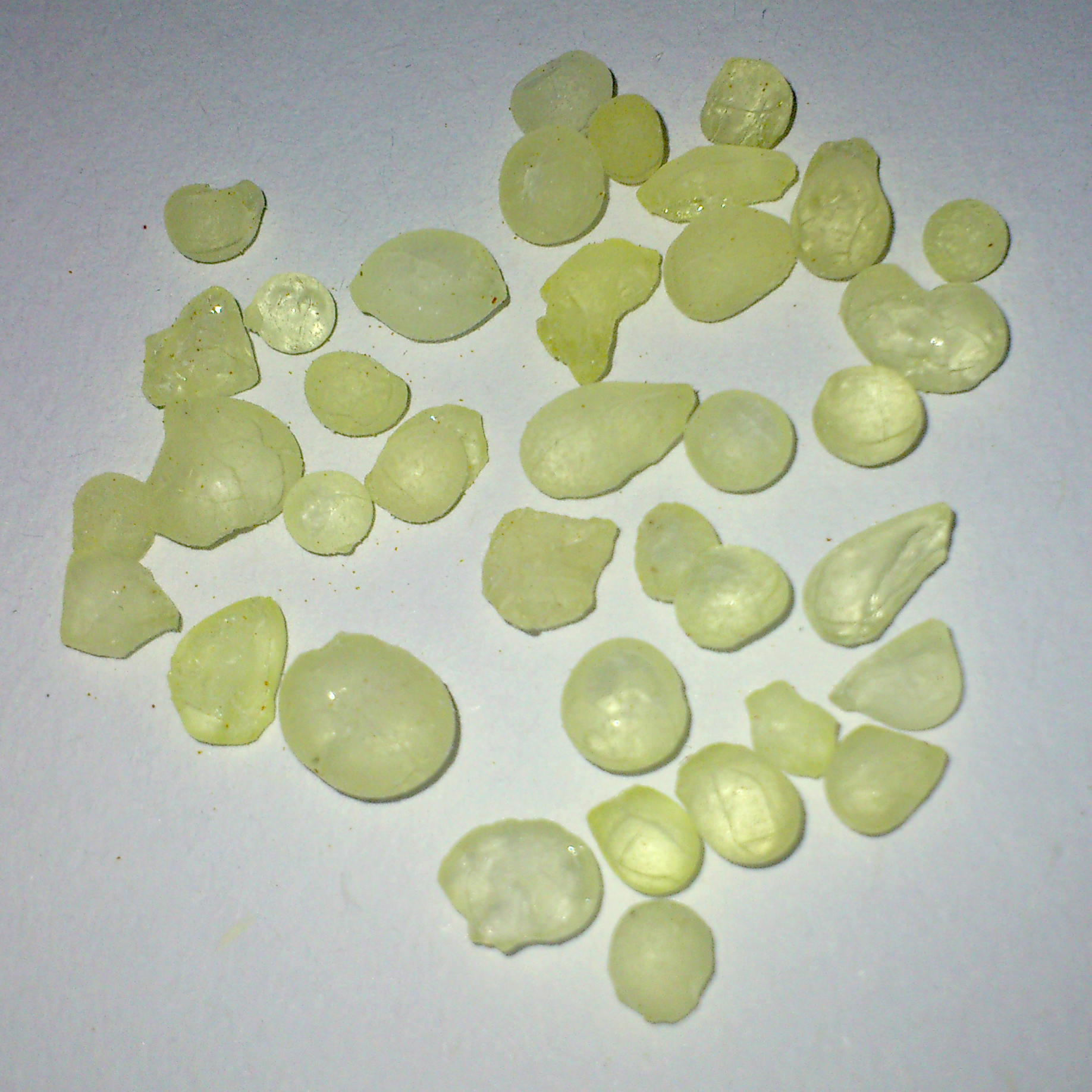 A number of yellow apatites